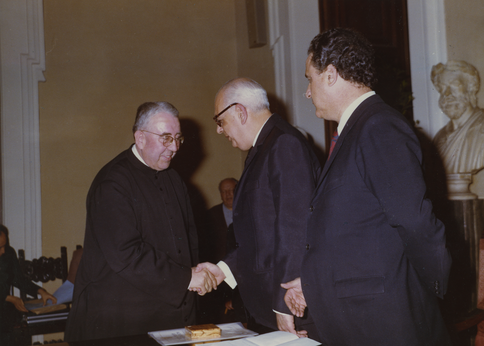 Ceremony in honor of Dante Sala (Rome, Italy - May 3, 1971)